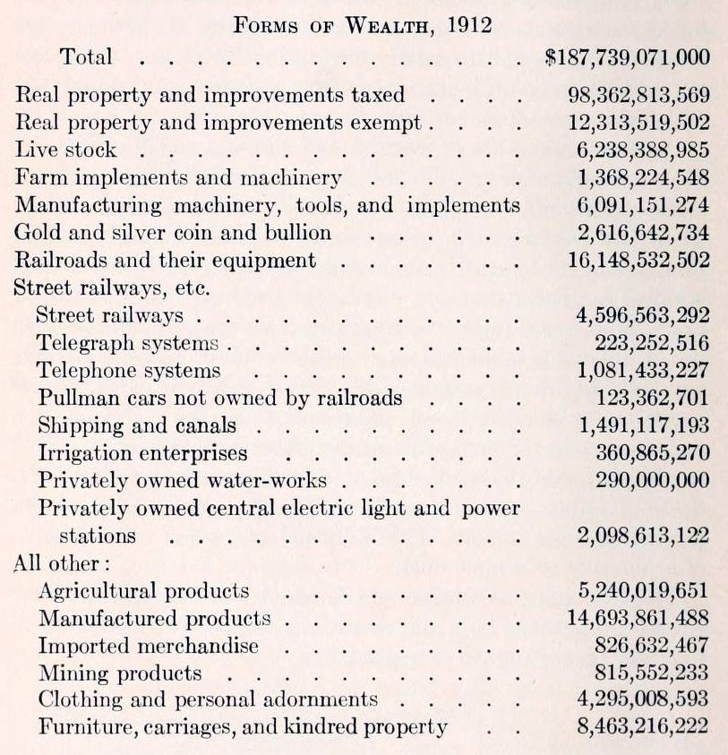 Table of different forms of Wealth in 1912, 1921